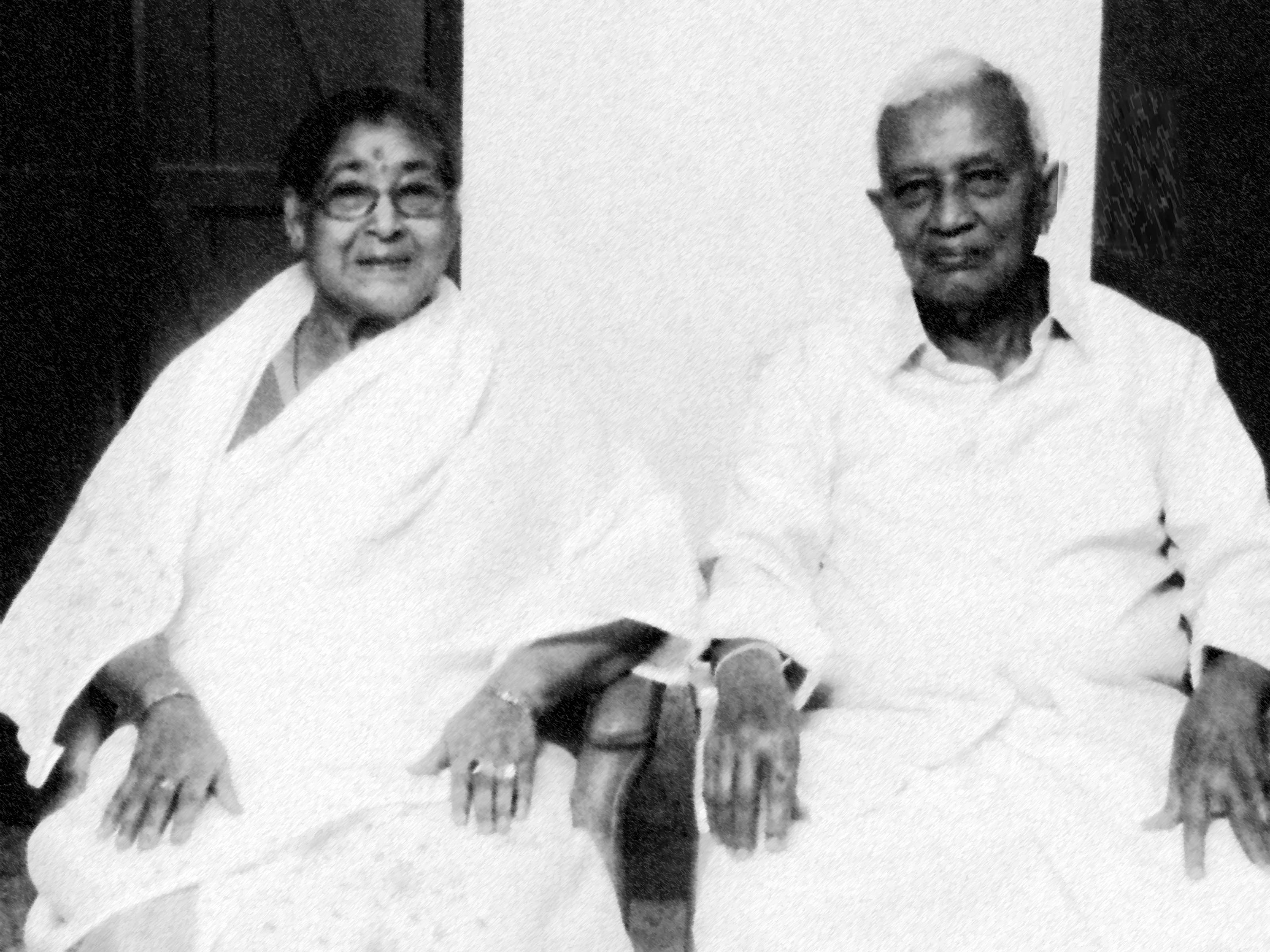 Moromor Aita n Koka